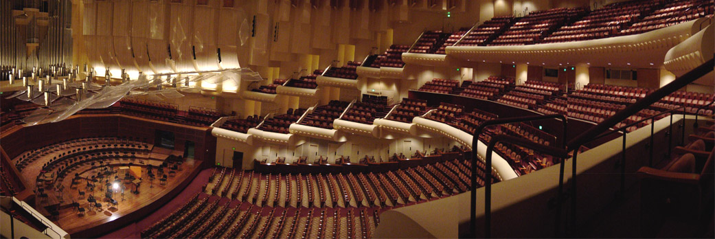 Multiple image composite of the interior of Louise M. Davies Symphony Hall, in San Francisco. Image by User:Leonard G.Architect, Pietro Belluschi